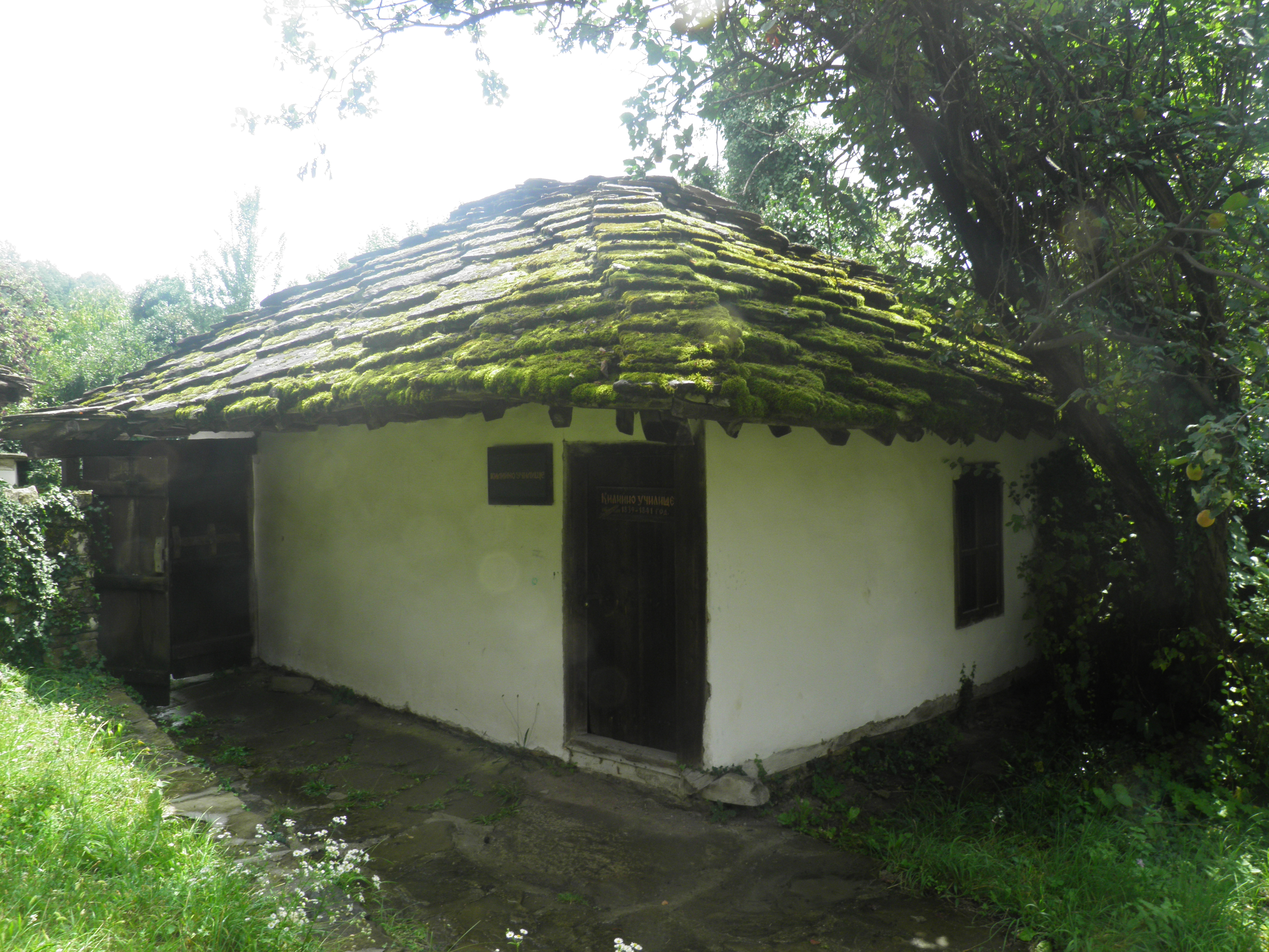 Monastery school in Bozhentsi,Bulgaria